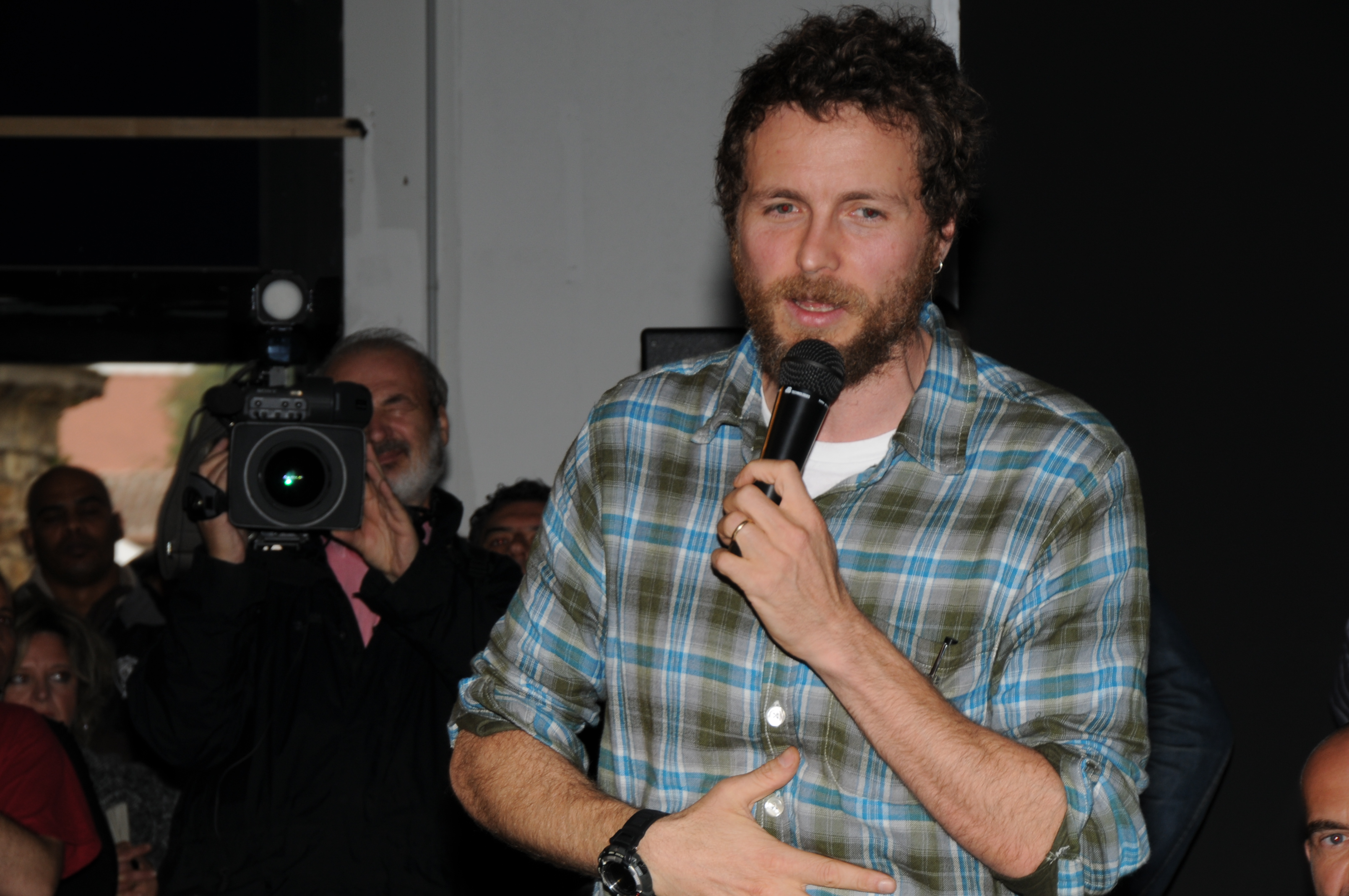 Lorenzo Jovannotti at Festival della Creatività Firenze